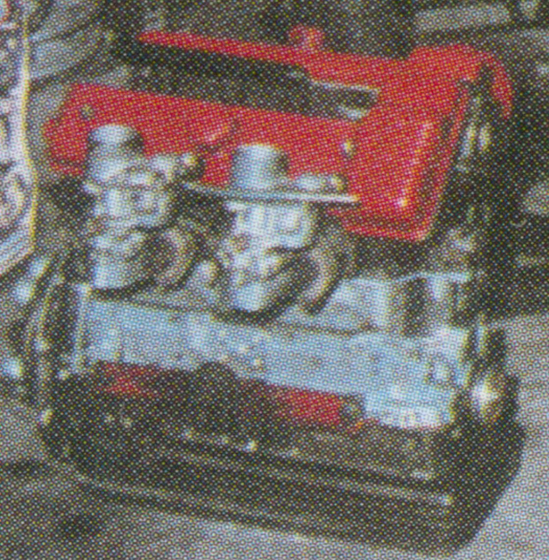 Bandini formula 3 picture by Bandini book